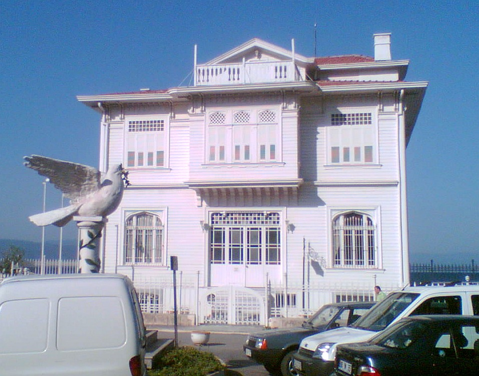 Building where the Armistice of Mudanya was signed, Mudanya, Bursa, Turkey